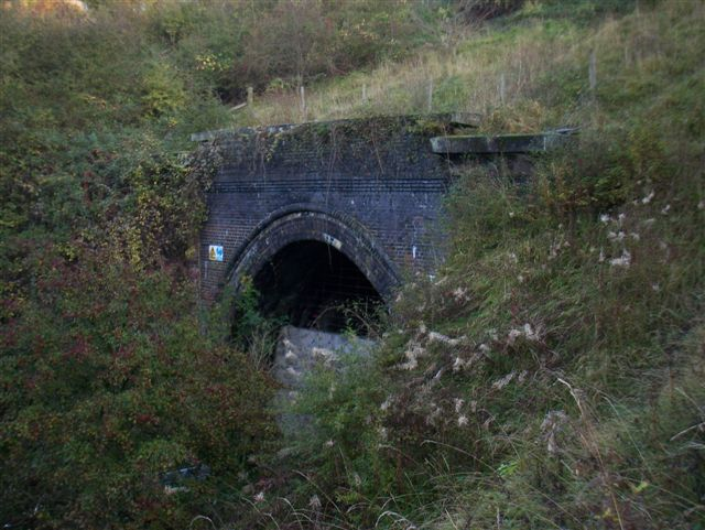 Old Warden Tunnel Tunnel Northern Portal near Old Warden on the disused Bedford to Hitchin railway. Now part of a nature reserve